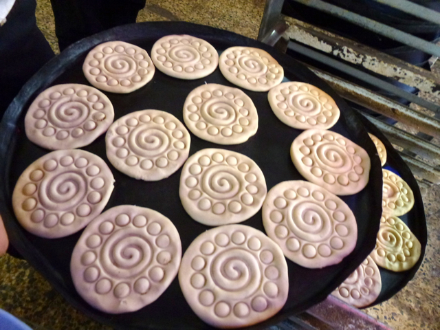 This is a tray of Koloochehs from Fuman just before they enter the over for a three minute cooking to perfection.